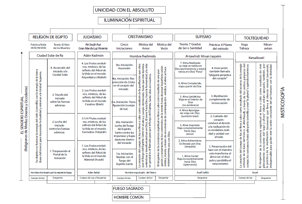 Gráfica comparativa de tradiciones espirituales de medio oriente y occidente